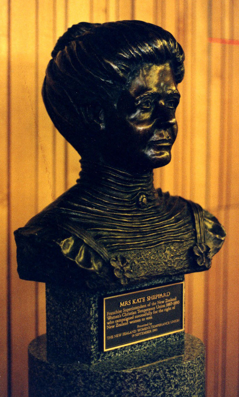 On the 13th July 1934 Kate Sheppard passed away at the age of 87. Katherine Wilson Sheppard was instrumental in implementing universal suffrage in New Zealand, leading the way for the women’s suffrage movement worldwide. This photo shows a bust of Kate Sheppard that was presented to Parliament by the Women’s Christian Temperance Union as part of the 1993 Suffrage Celebrations. This photo comes from the Ministry of Women’s Affairs holdings and is part of the 1993 Suffrage Centennial Year Trust photograph collection. [Archives Reference: ABKH 7366 W4437 92/NF601] For further enquiries please For updates on our On This Day series and news from Archives New Zealand, follow us on Twitter Material from Archives New Zealand